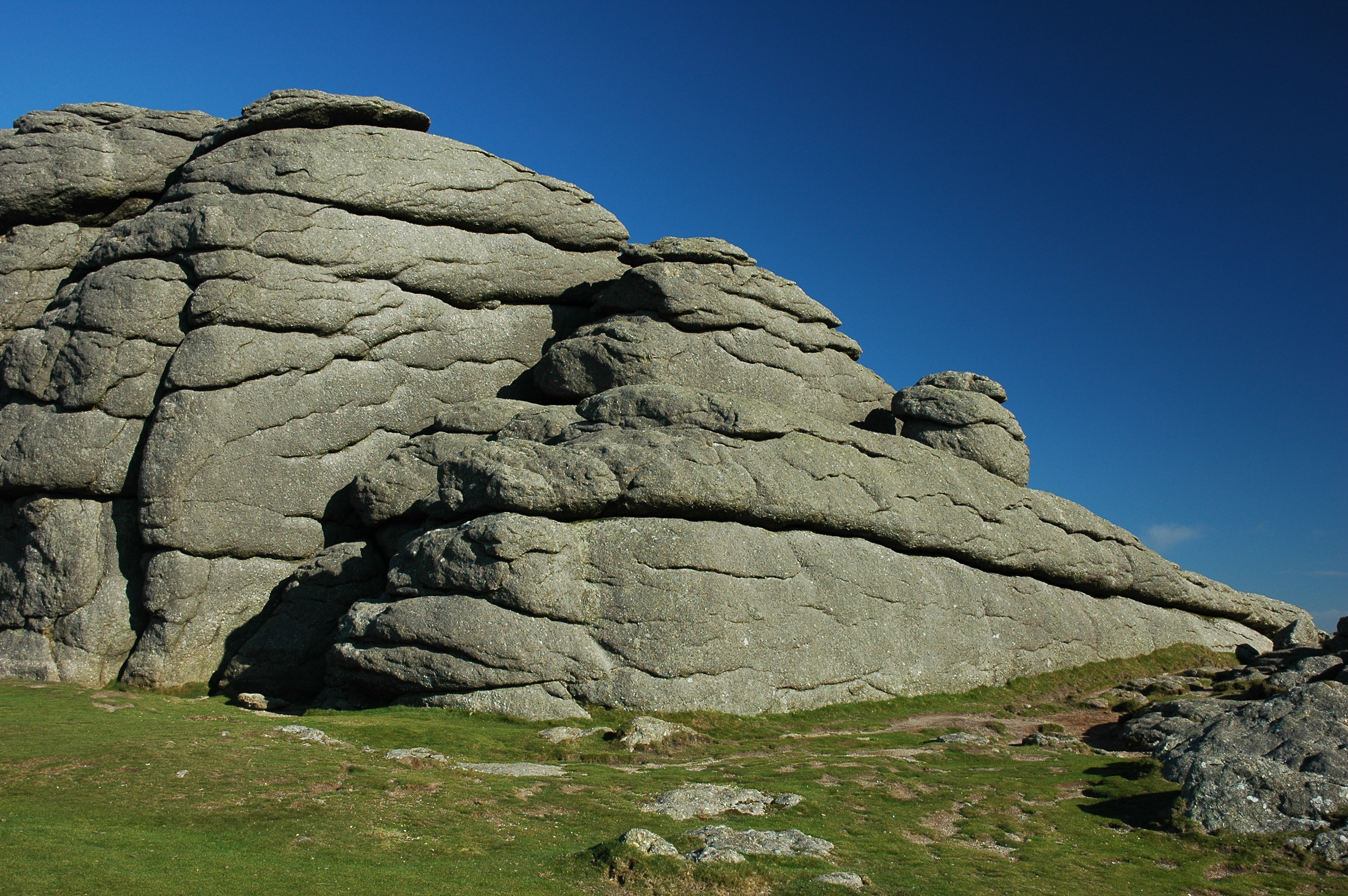 Haytor